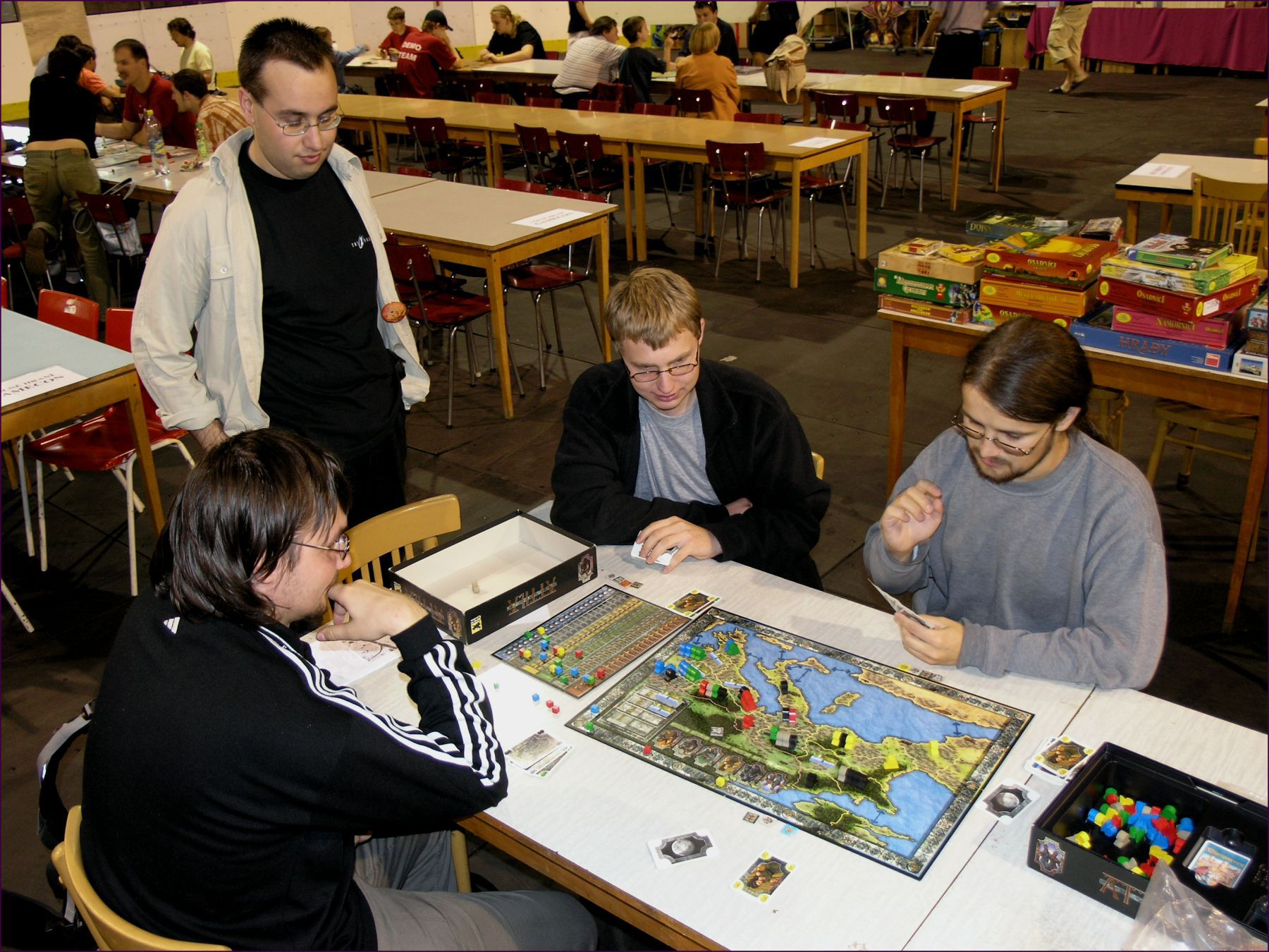 GameCon 2007 in Pardubice - Attila